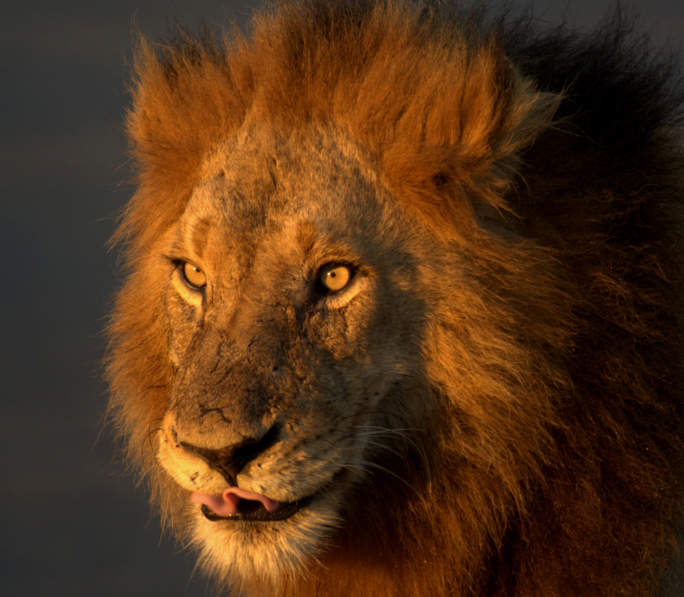 Wild lion in Kruger National Park, South Africa